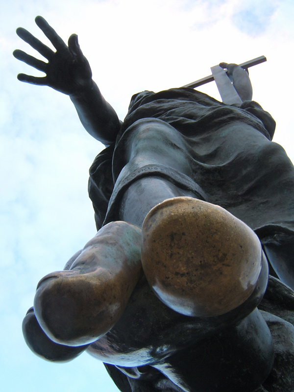 Statue of the ransomer on Monte Ortobene near Nuoro, Sardegna, Italy